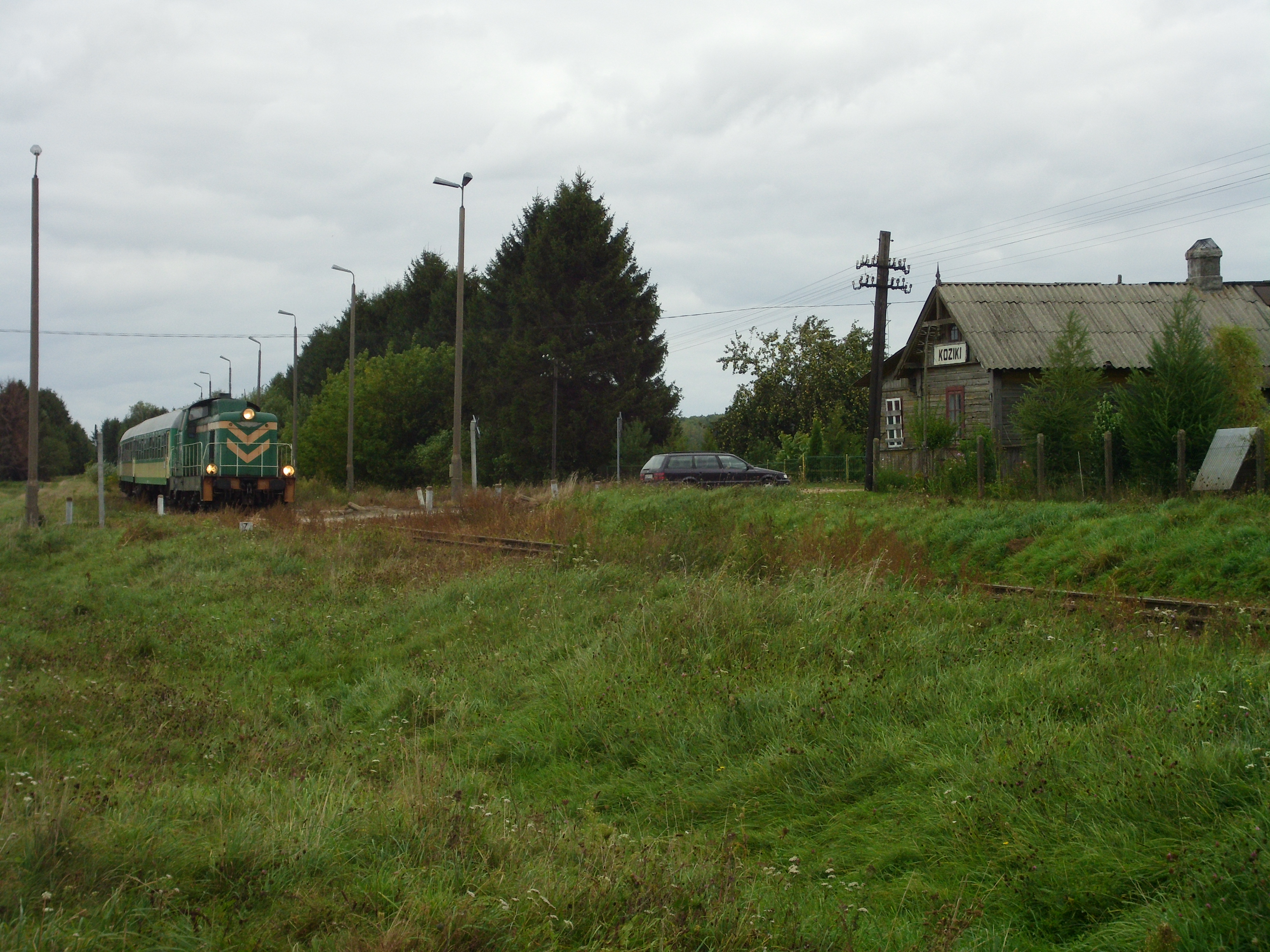 Tourist train in Koziki, Poland, on a route from Łomża to Śniadowo.